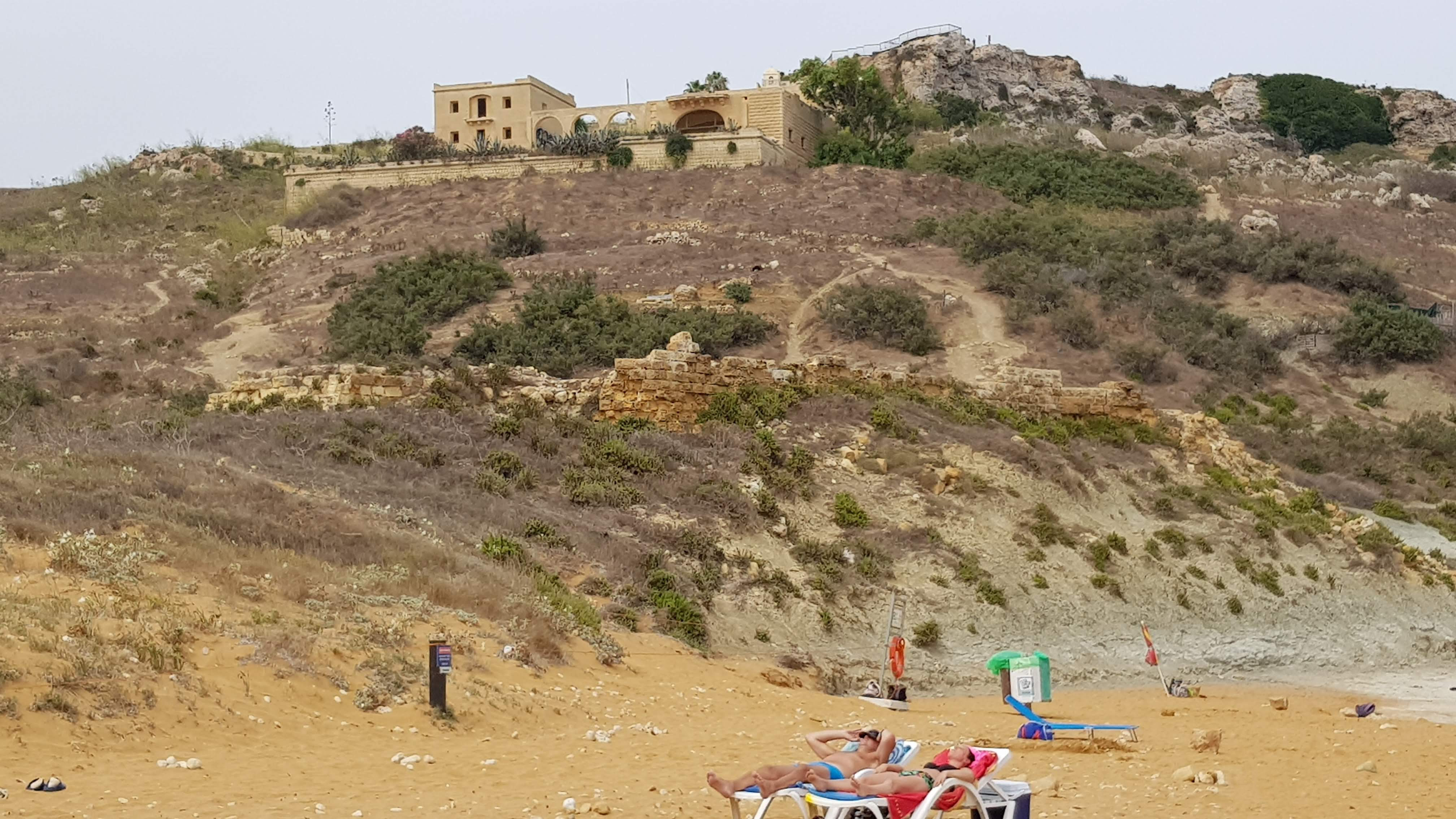 Ruins of Ramla Left Battery in Ramla Bay, Gozo This media is about Maltese cultural property with inventory number 1413.